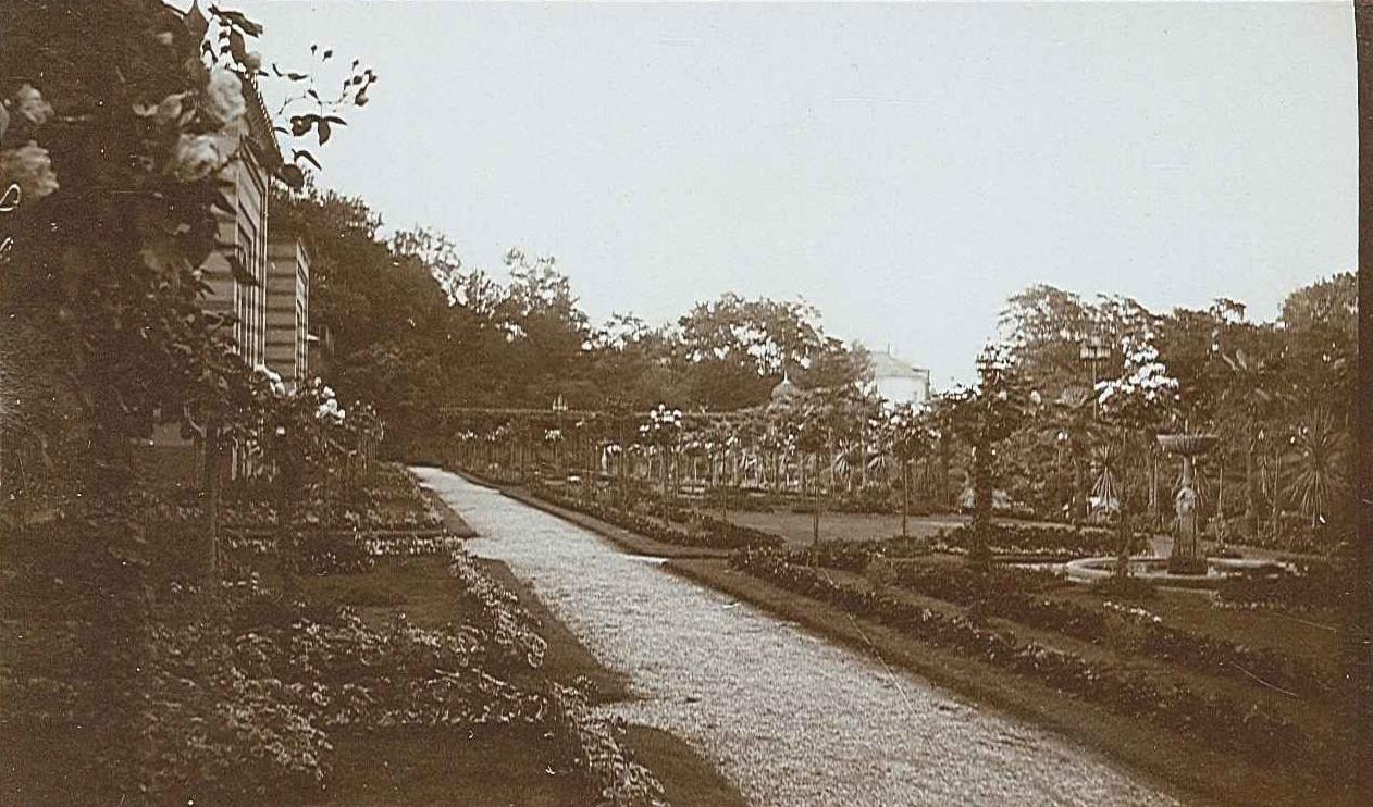 Wilhelma at Stuttgart, 1912